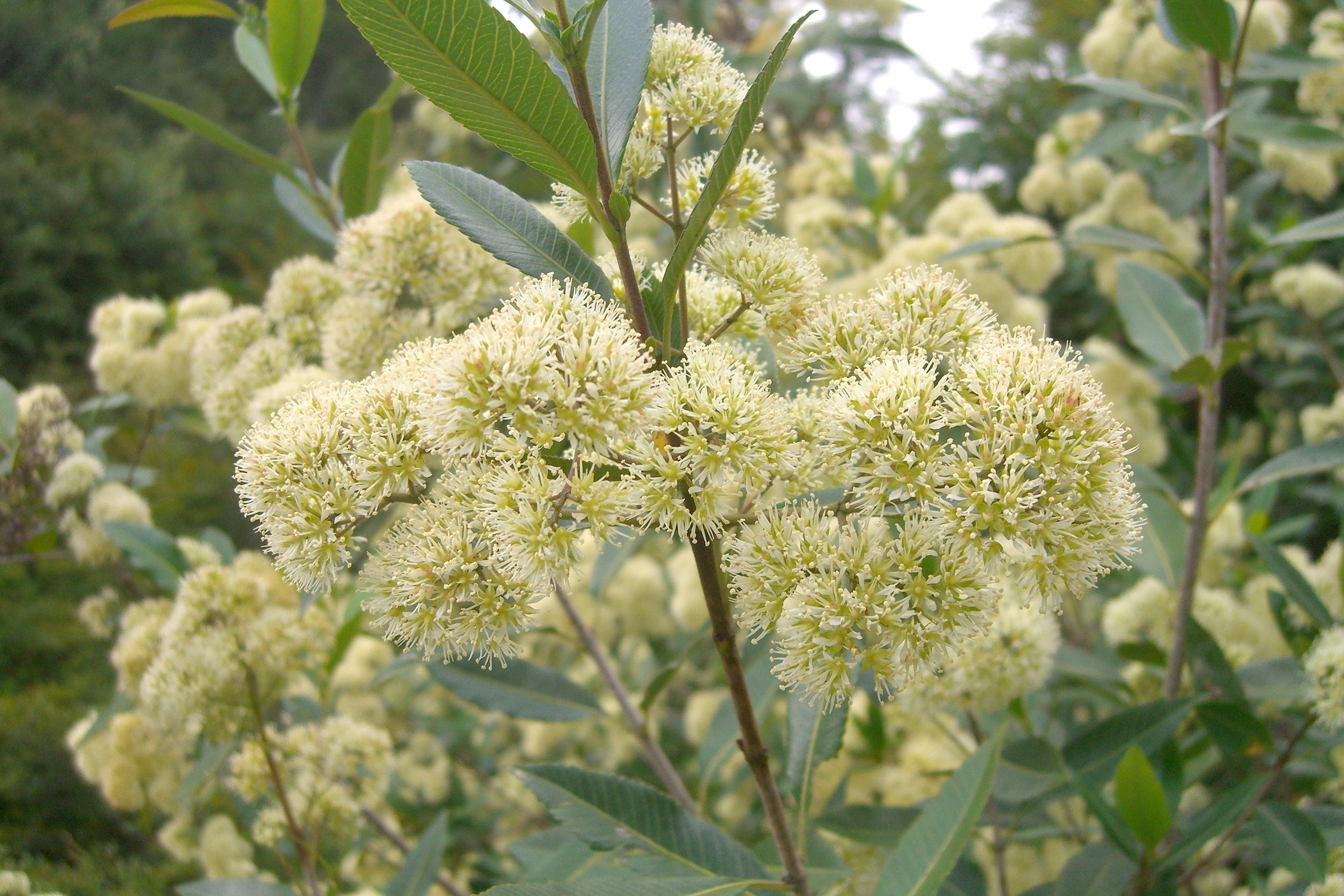 Caldcluvia paniculata -- thanks Jubaea! It is extremely common in the Valdivian forest, especially down here around 44-45 degrees south.